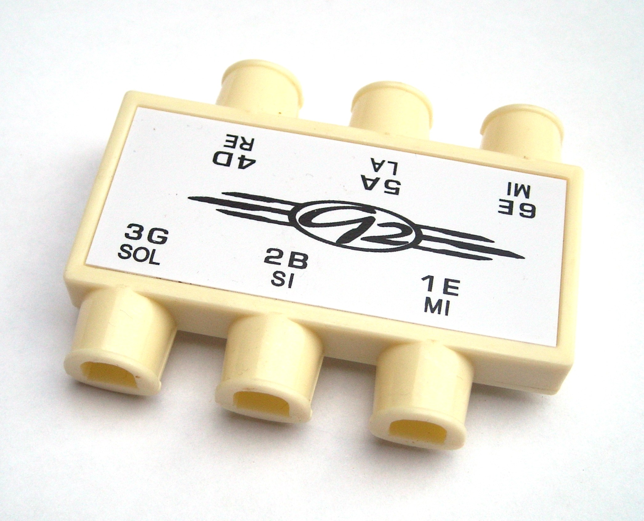 A set of pitch pipes. Each of the 6 pipes is tuned to a note of standard guitar tuning, to help with the tuning of a guitar.